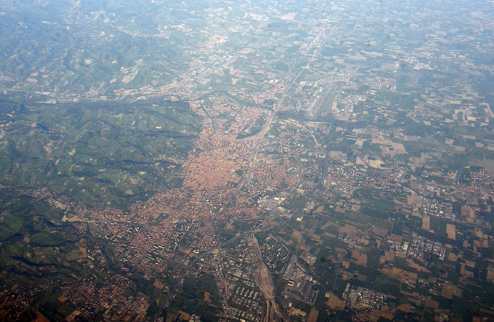 Aerial photographs of Bologna